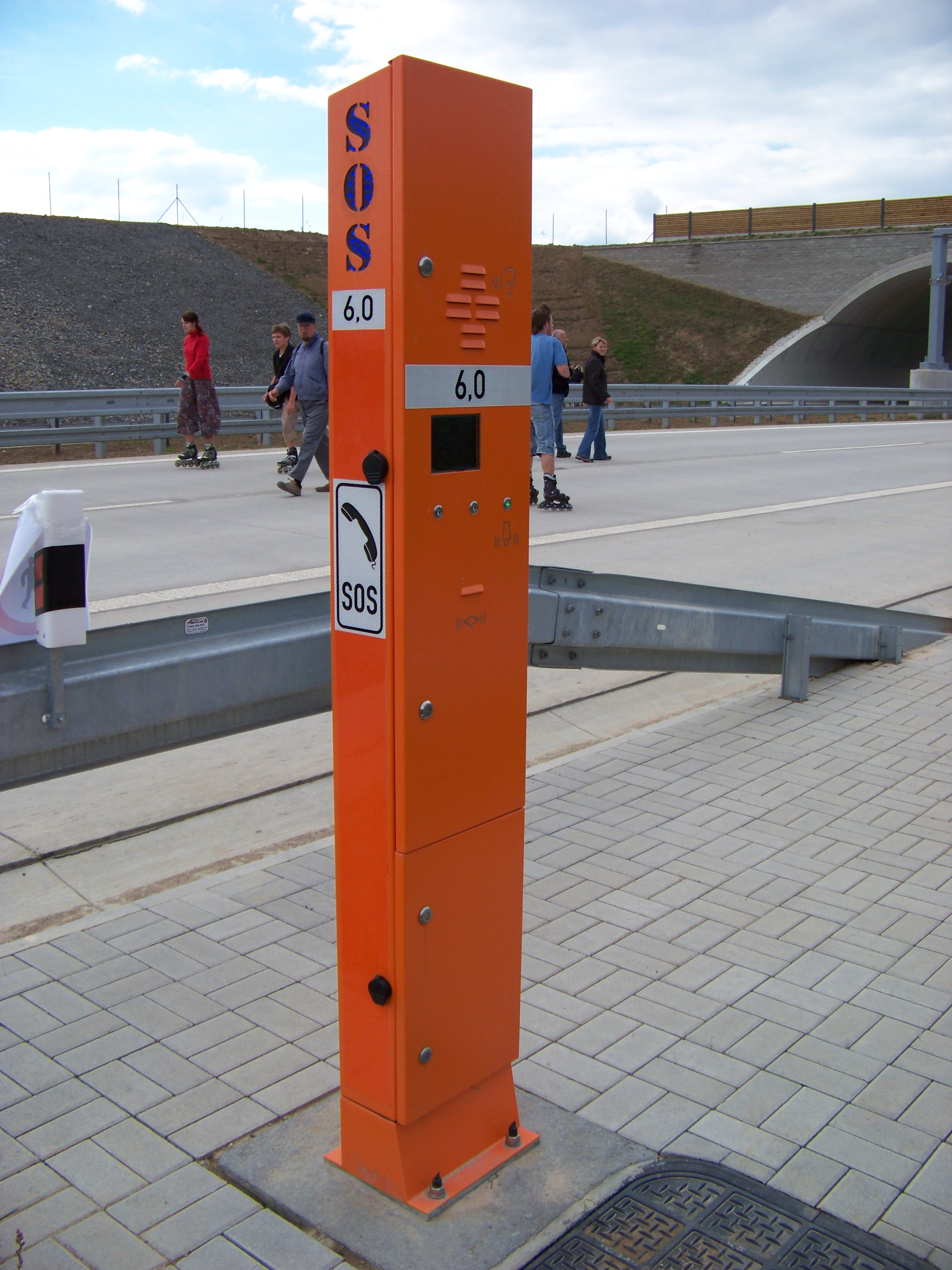 Prague-Cholupice, the Czech Republic. Open Doors Day of the new section of Prague Beltway. An emergency telephone. - Google Maps - Google Earth